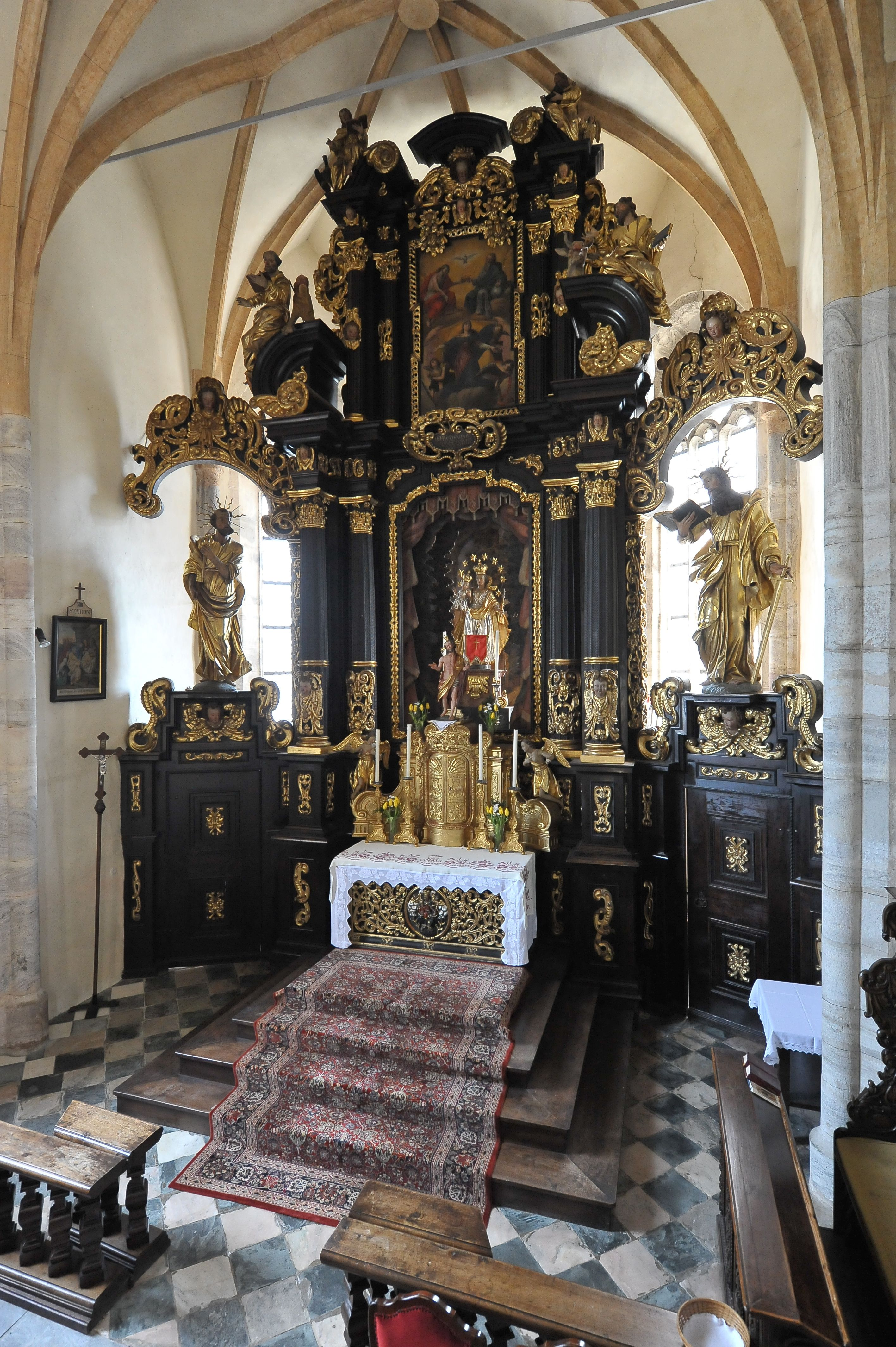 Choir with high altar in the subsidiary church Saint Mary at Maria Feicht, municipality Glanegg, district Feldkirchen, Carinthia / Austria / EU